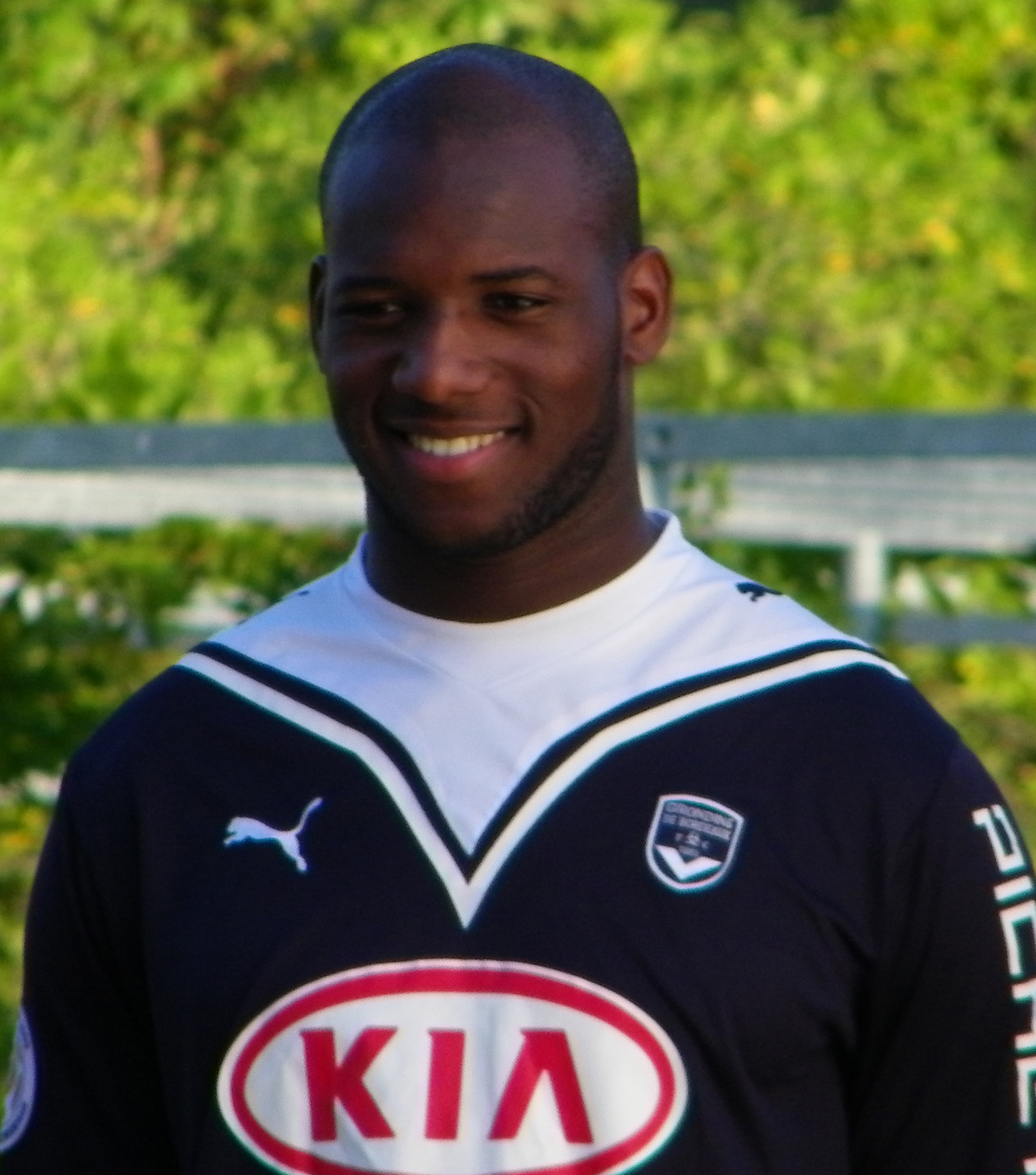 Players FC Girondins Bordeaux. Taken by Valentin Trijoulet. Public domain.